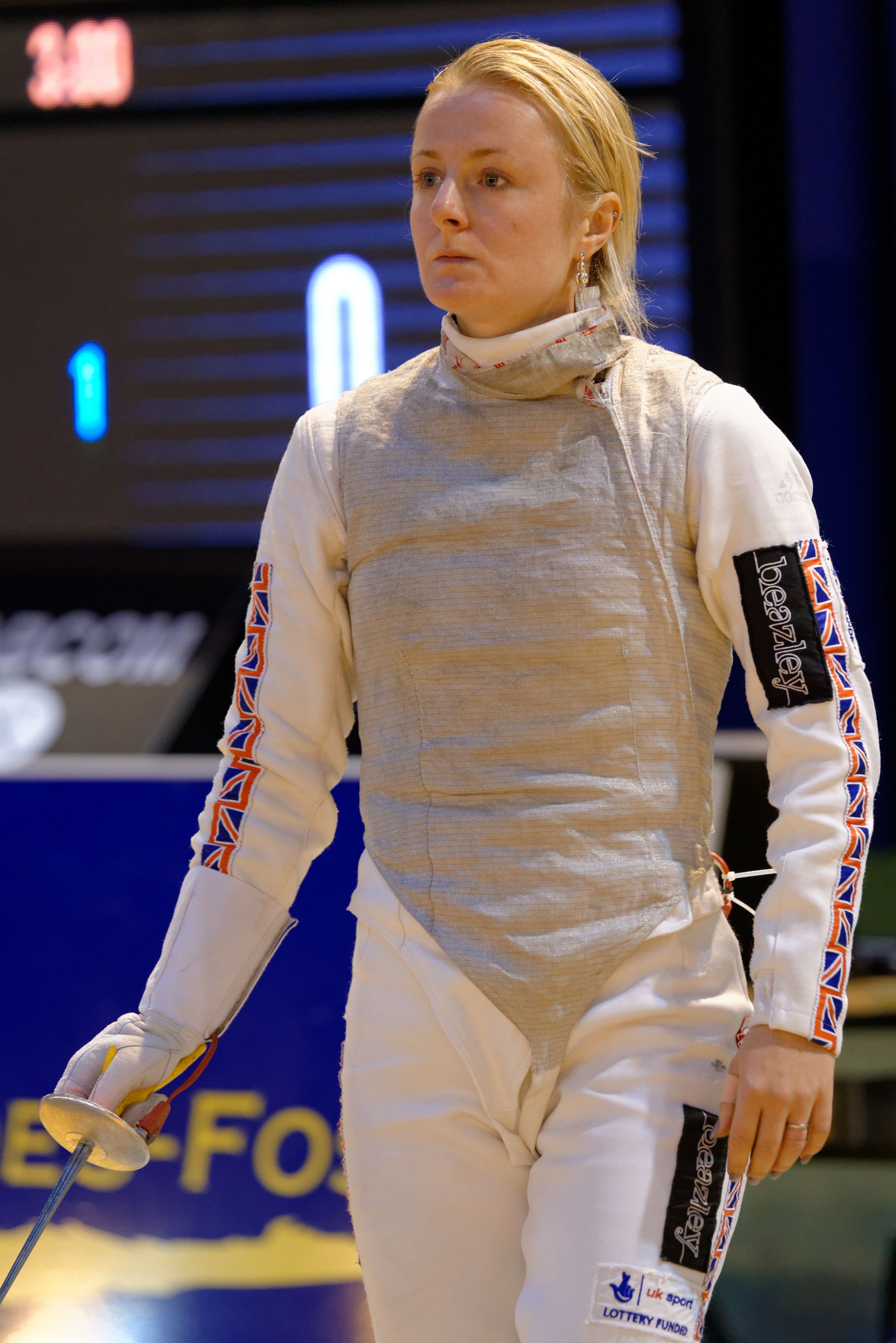 Great Britain's Natalia Sheppard at the Saint-Maur Women's Foil World Cup.